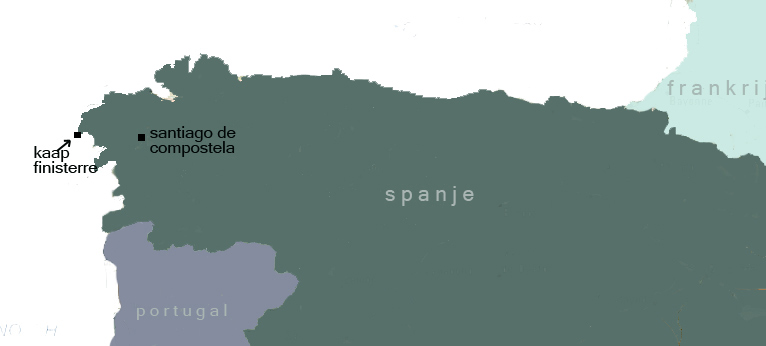 Map of north of Spain to indicate Cape Finisterre